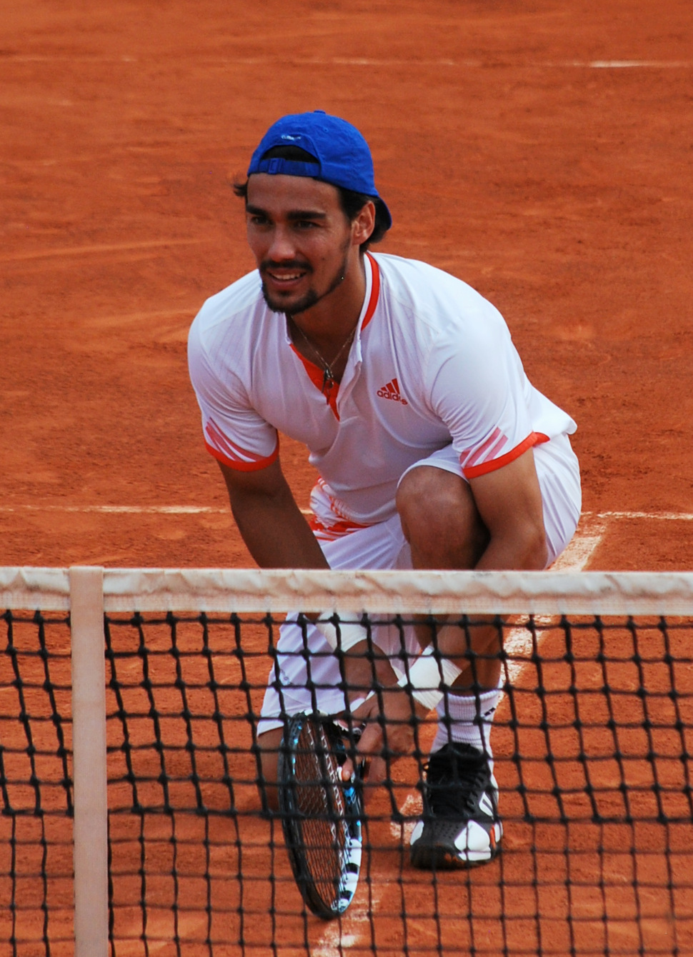 Fabio Fognini during his first round match with Simone Bolelli against Leander Paes & Alexander Peya. Paes & Peya won 6-1, 6-7, 6-3. Day 5 of Roland Garros 2012.